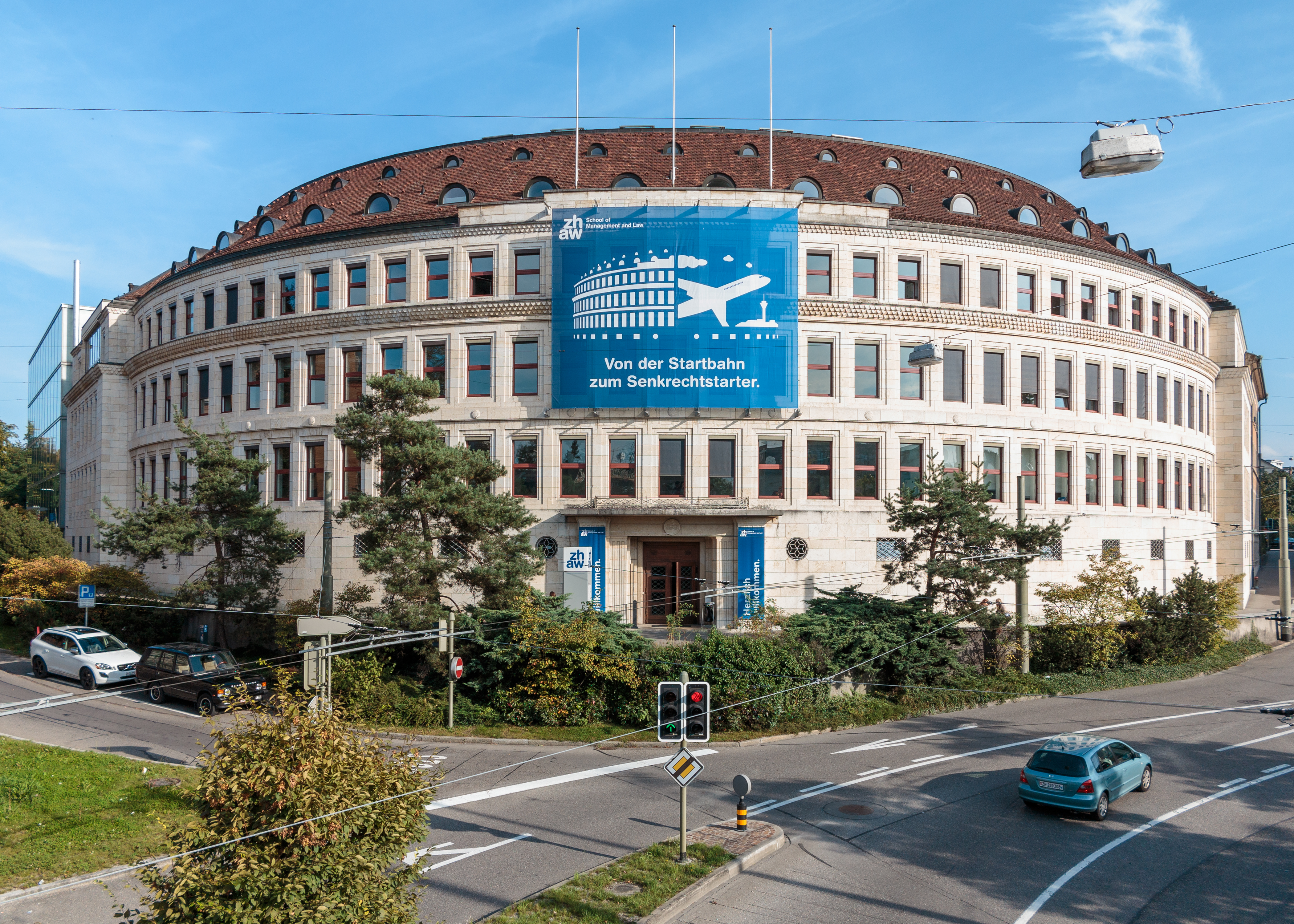 Building of ZHAW Zurich University of Applied Sciences in Winterthur